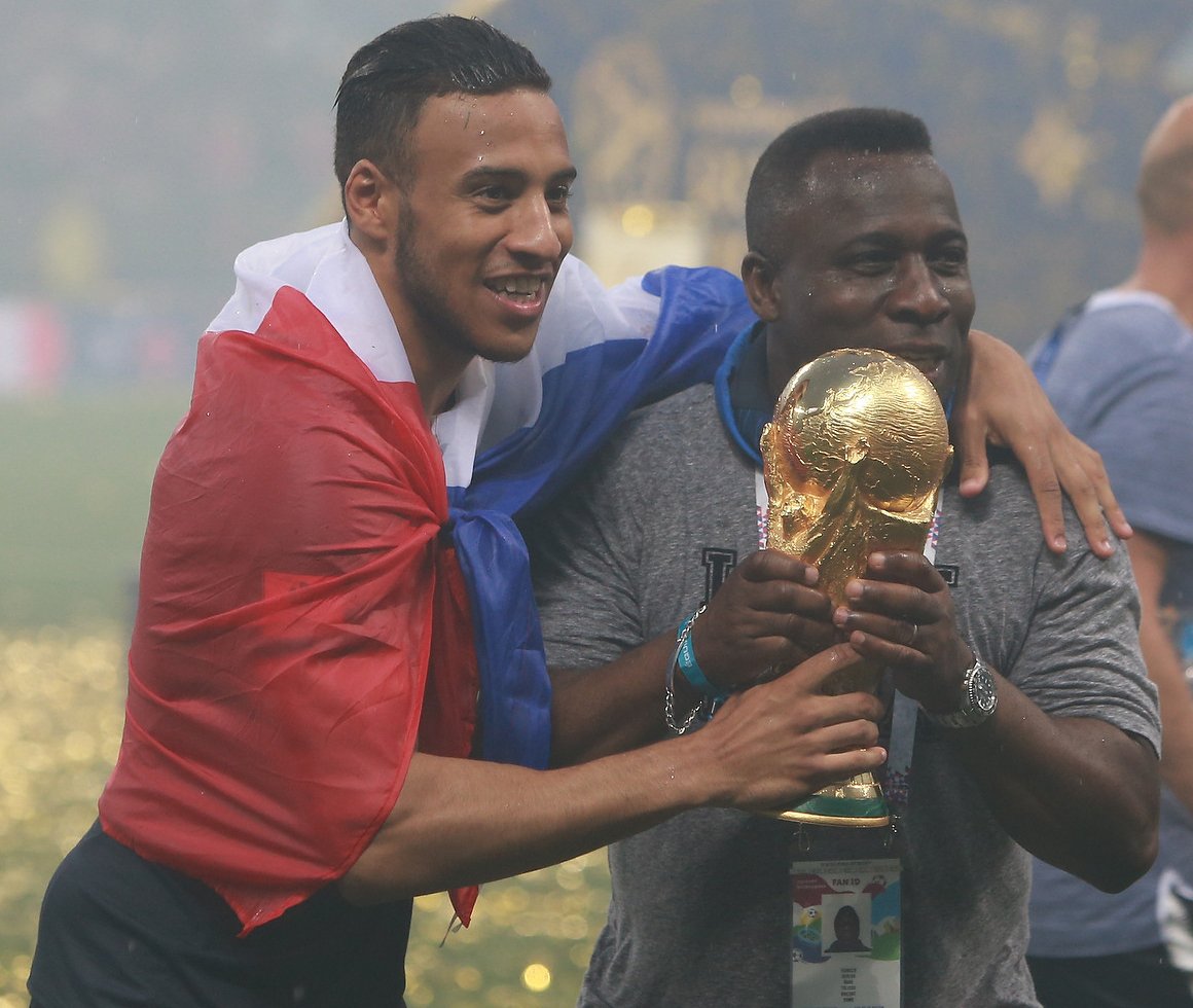 French footballer Corentin Tolisso with his father Vincent holding the FIFA World Cup Trophy after the tournament's final match on 15 July 2018.